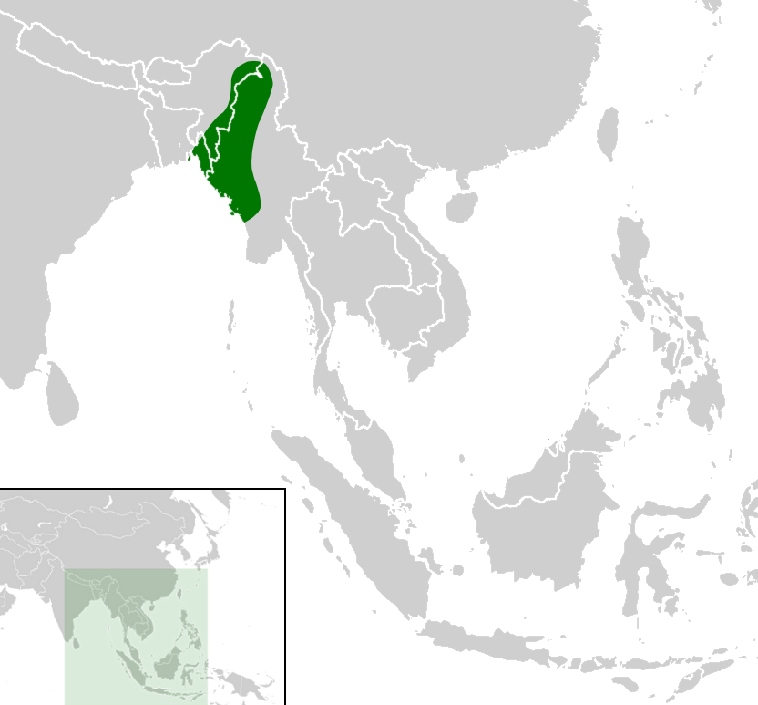 Asia Blank map